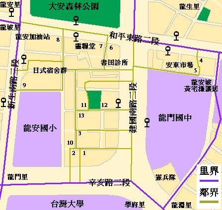 The map of LongMen-Li in DaAn District, Taipei City